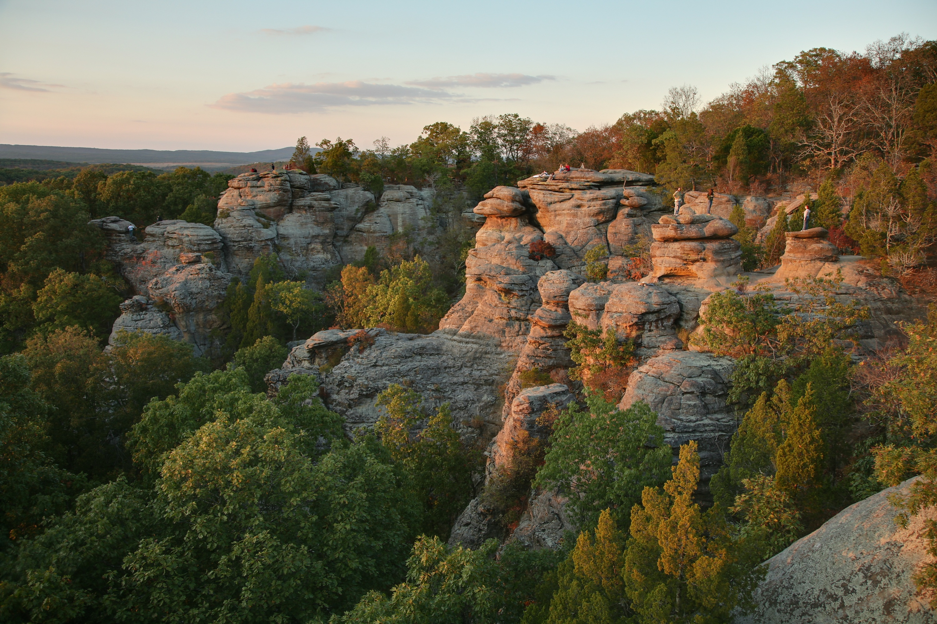 Sunset at Garden of the Gods in Shawnee National Forrest, Illinois, USA Diese Datei wurde mit Hugin erstellt.